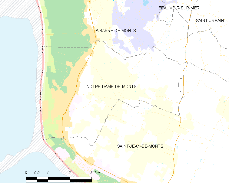 Map of French municipality Notre-Dame-de-Monts